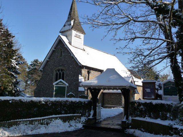 All Saints' parish church, Hartley, Kent, seen from the southwest in snow